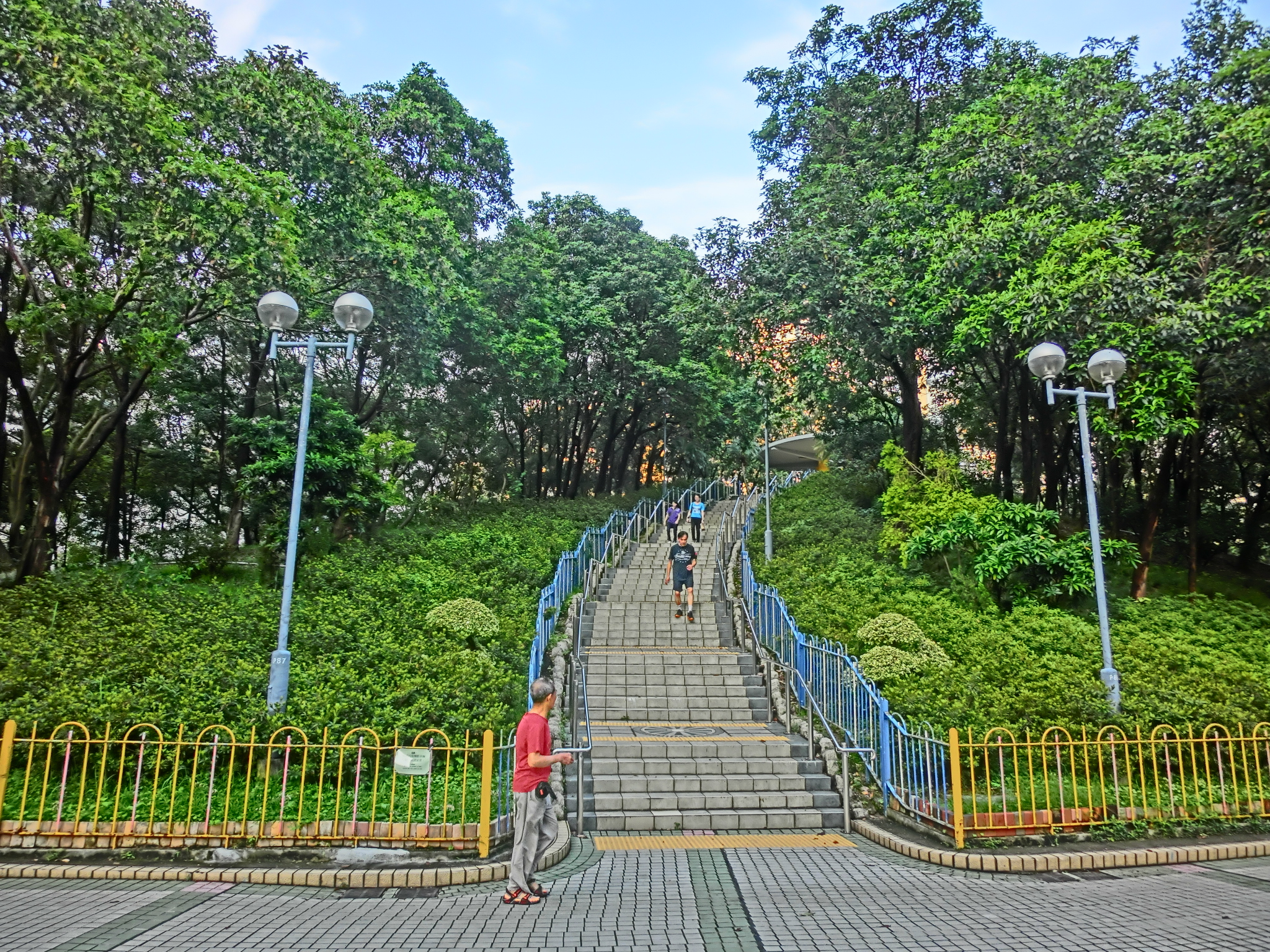 摩士公園, Morse Park, Wong Tai Sin, Hong Kong